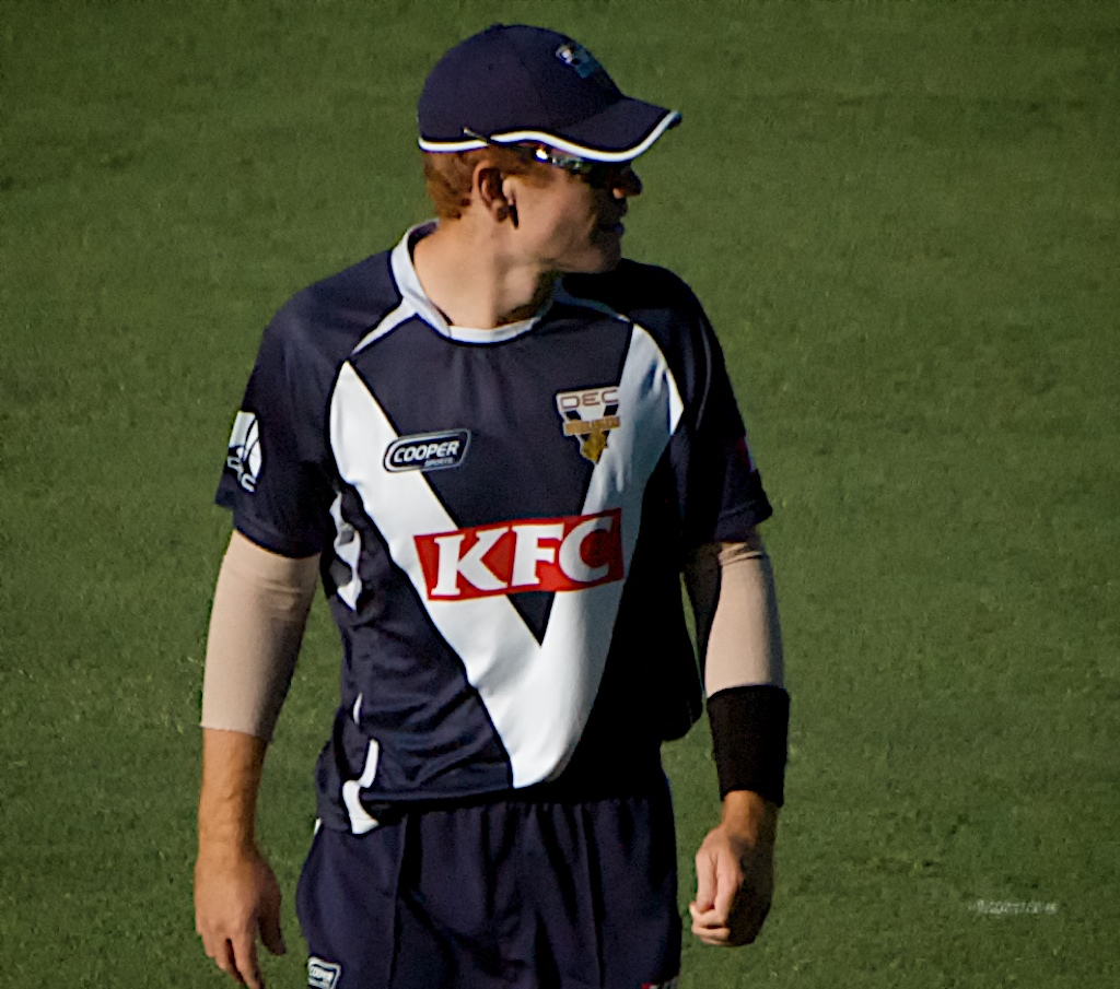 Andrew McDonald at KFC Twenty20 BigBash - WA v VIC, 10 January 2010, WACA Ground